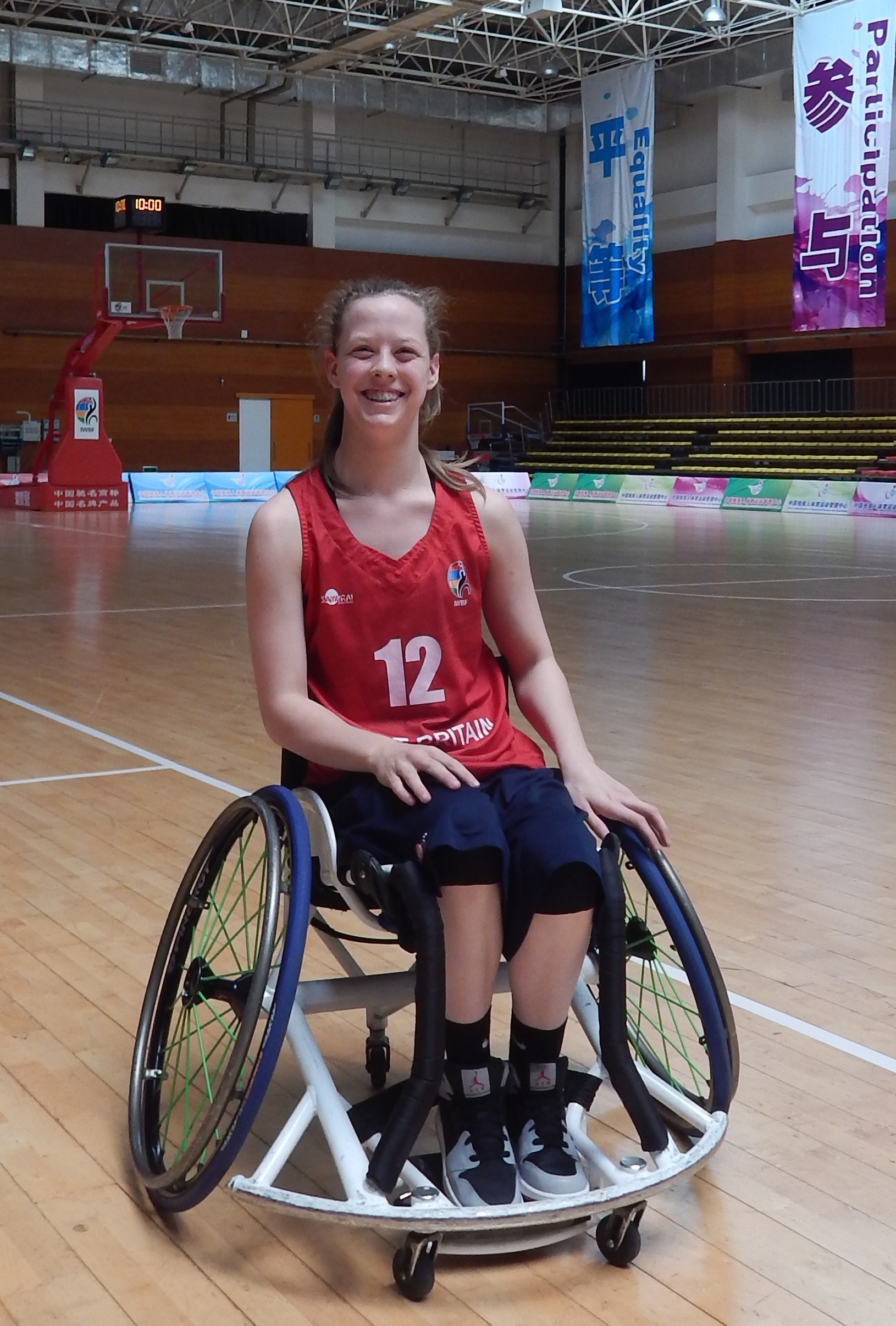 U15 Women's U25 Wheelchair Basketball World Championship - Team Great Britain - Leah Evans